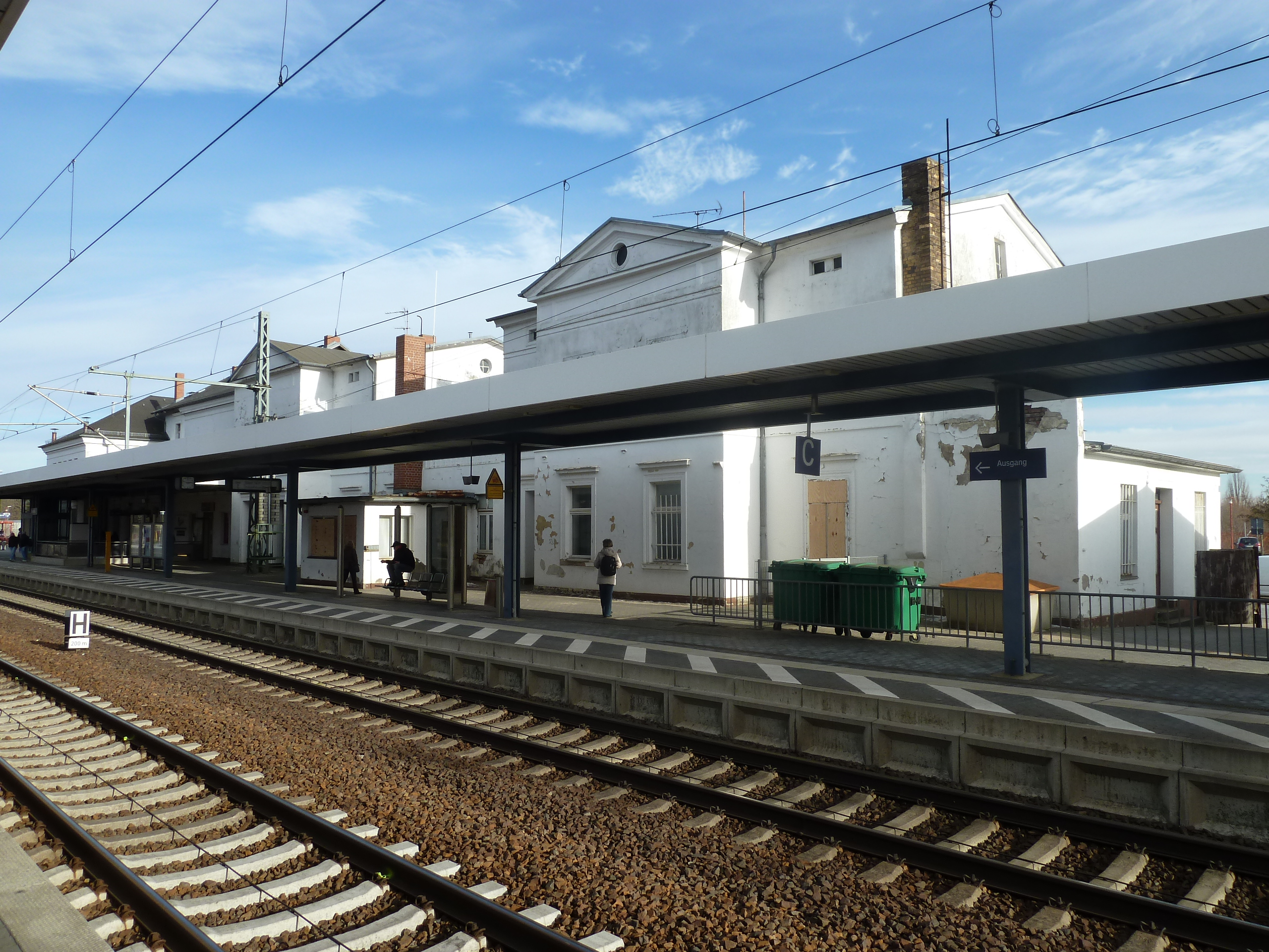 Jüterbog railway station, platform side